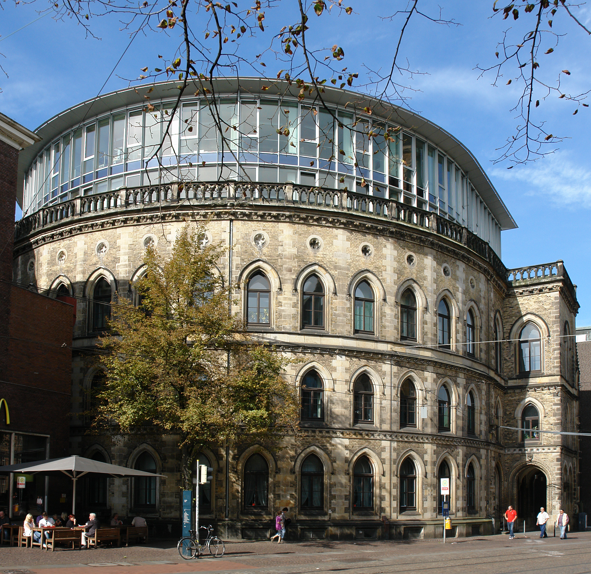 Börsenhof A in Bremen, Old Stock Exchange Annexe.Das abgebildete Objekt ist ein geschütztes Kulturdenkmal in der Freien Hansestadt Bremen, mit der Nr. 0057 beim Landesamt für Denkmalpflege registriert.